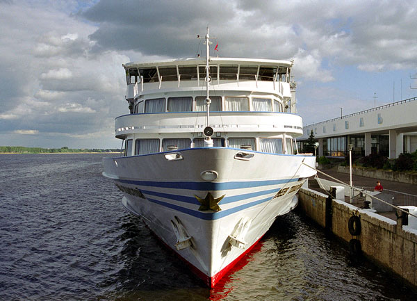 Lev Tolstoy (1979) Project Q056 Anton Cekhov in Yaroslavl